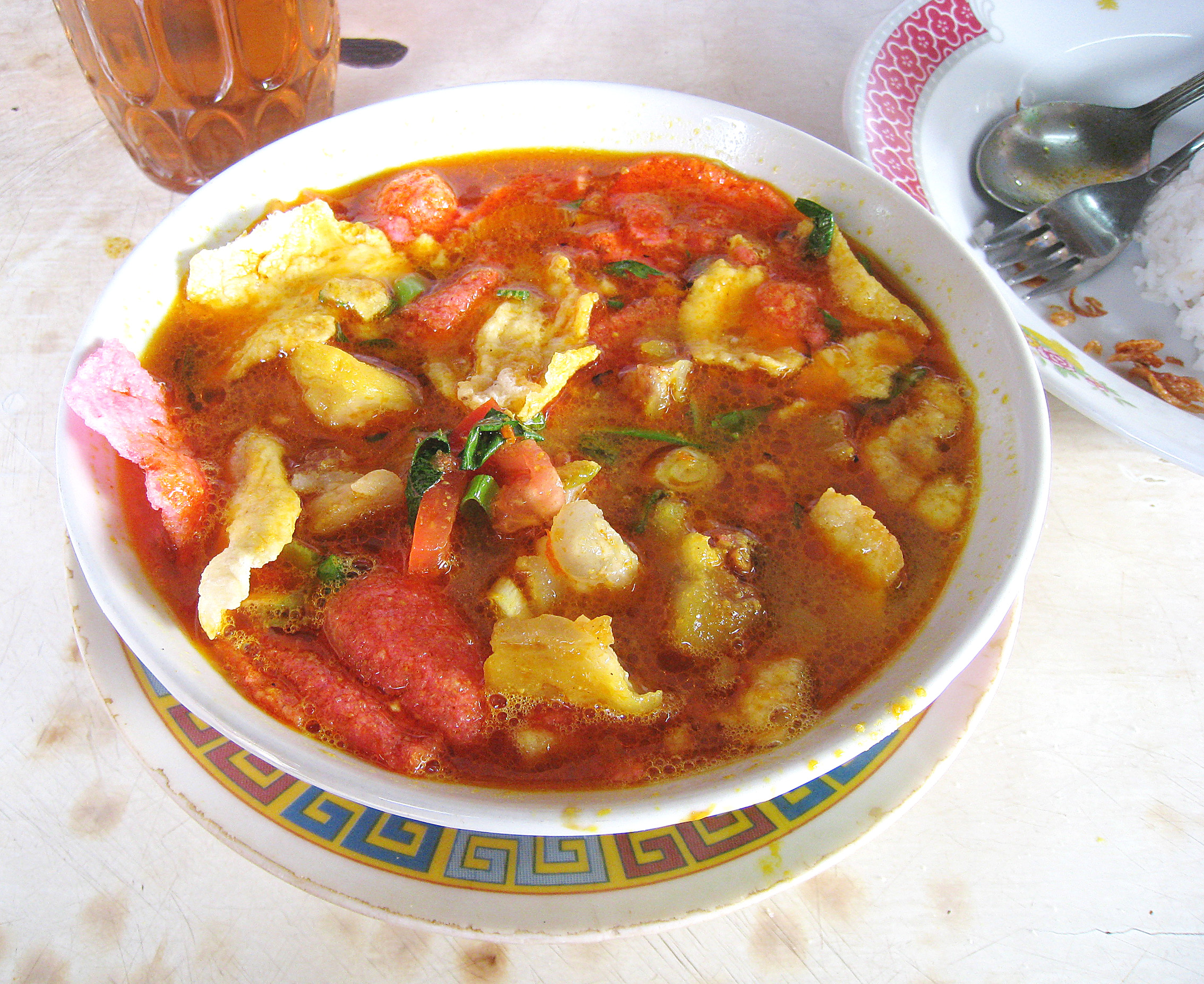 Soto Kaki (cow's foot tendons soup), a popular Betawi recipe served in a famous traditional Warung at Mencos area, near Salemba Tengah, Central Jakarta.